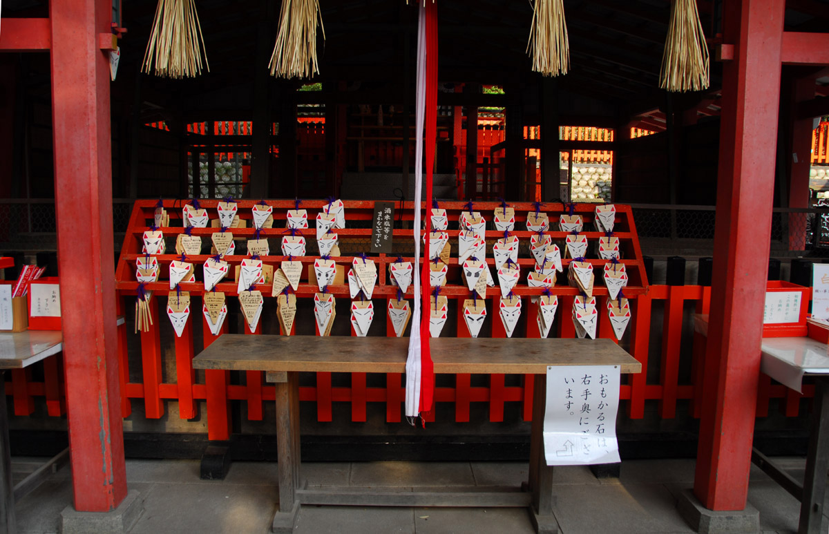 FushimiInari Taisha is a Japanese temple famous for its "Thousand Torii" corridor and fox statues (fox is a messenger of the merchant god). This photo shows the fox head "Ema" for bringing good lucks.